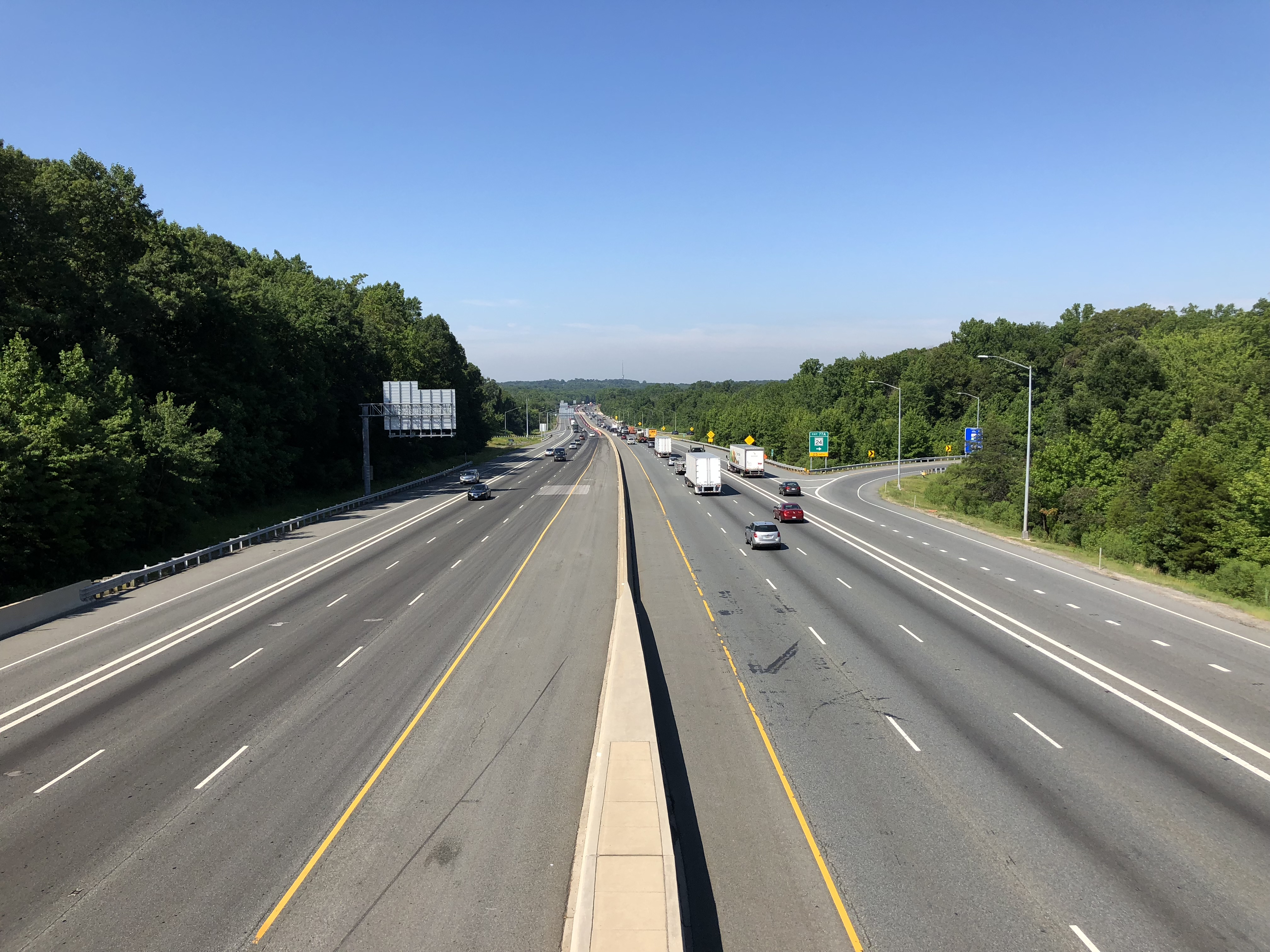 View south along Interstate 95 (John F. Kennedy Memorial Highway) from the overpass for Maryland State Route 24 (Vietnam Veterans Memorial Highway) on the edge of Edgewood and Bel Air South in Harford County, Maryland